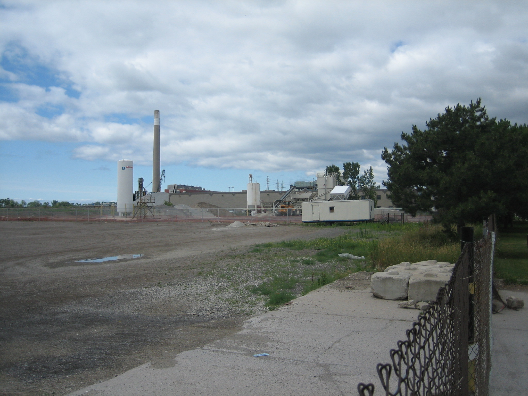 Part of the Portlands in Toronto